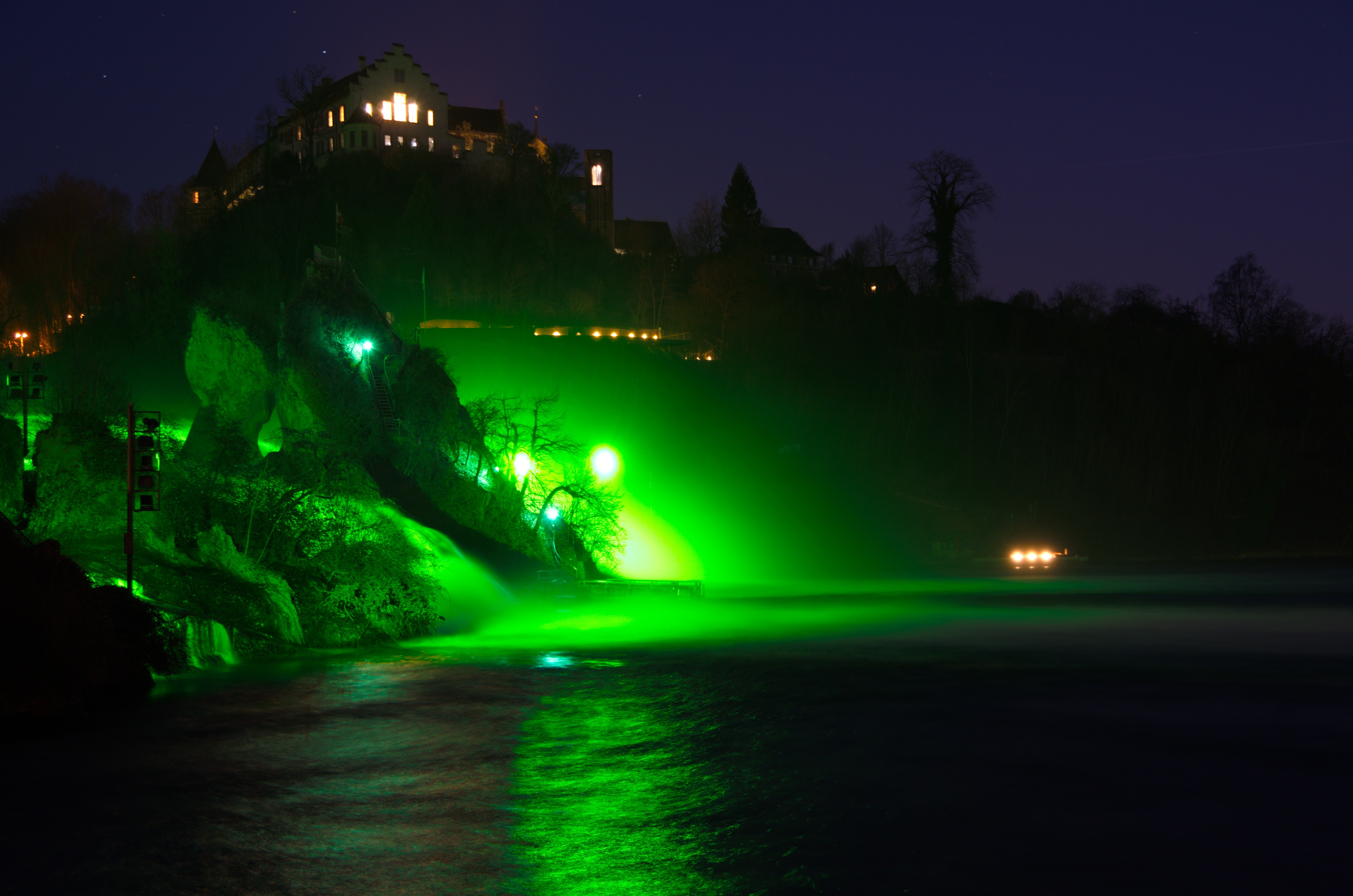 Rhine Falls Waterfall on St Patrick's Day 2017